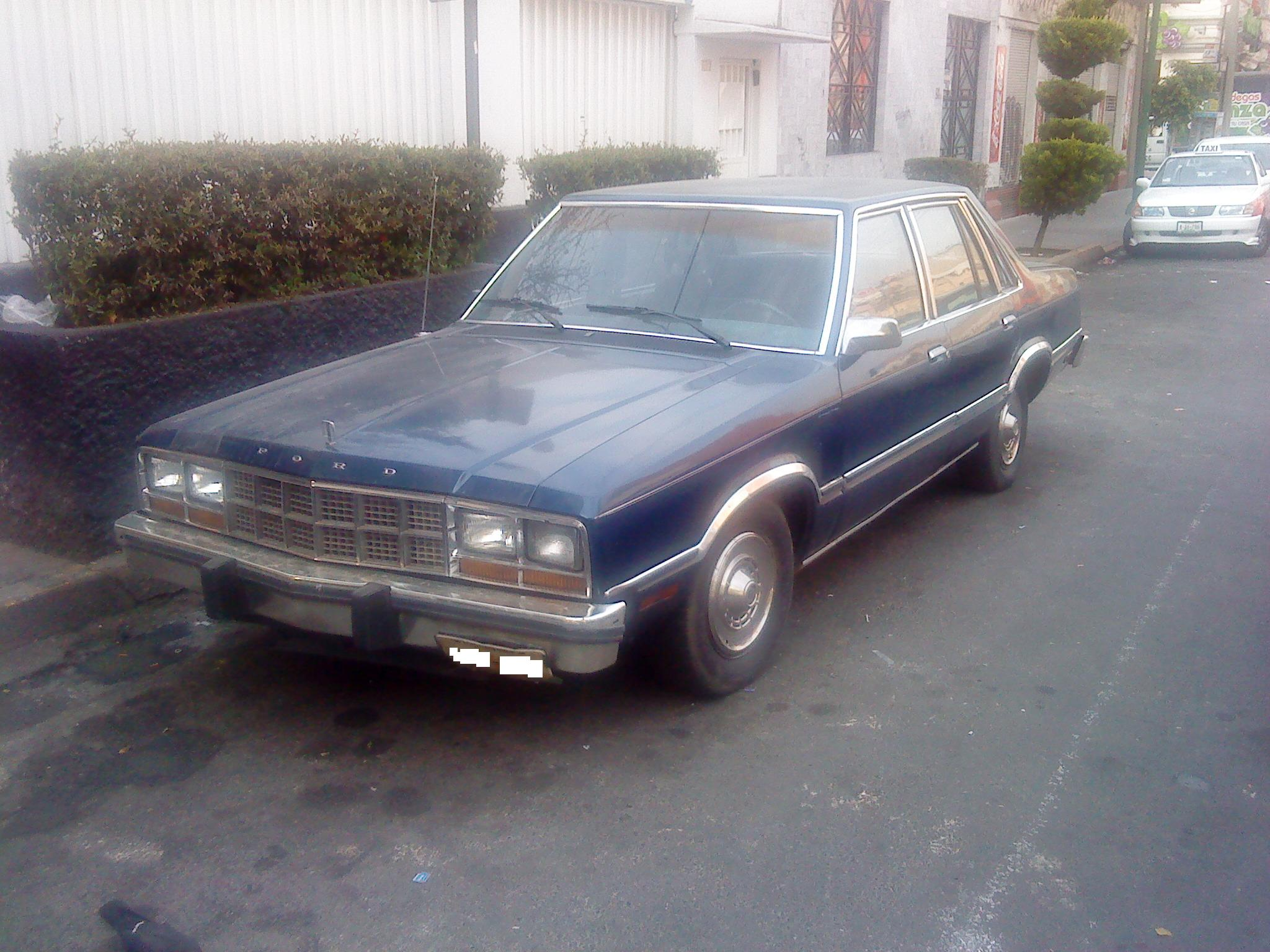 A 1981 4 door Ford Fairmont in Mexico City